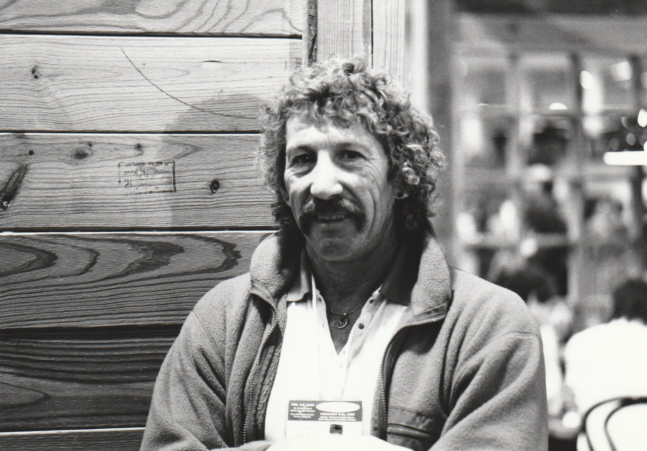 Jim Bridwell visits the Salt Lake trade show, about 1990. Photo by Pat Ament.